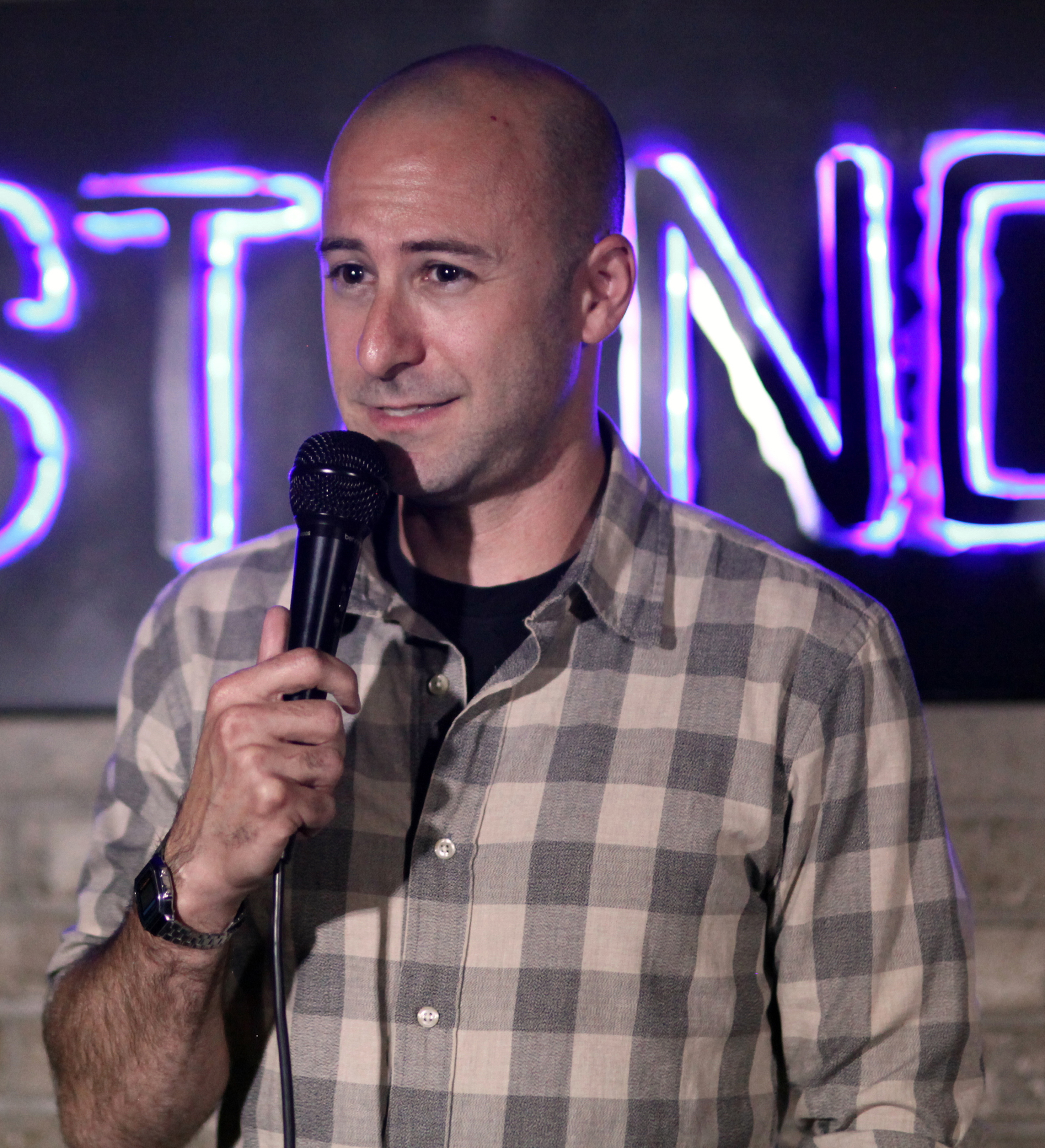 Adam Lowitt performs at The Stand in New York City, July 2016.